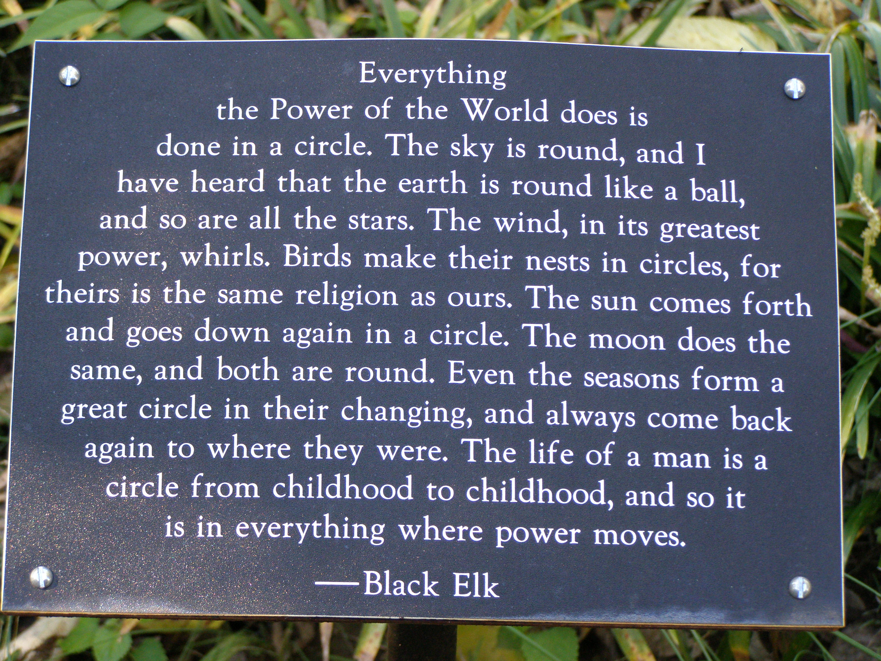 Everything the Power of the World does is done in a circle . . . . Black Elk.